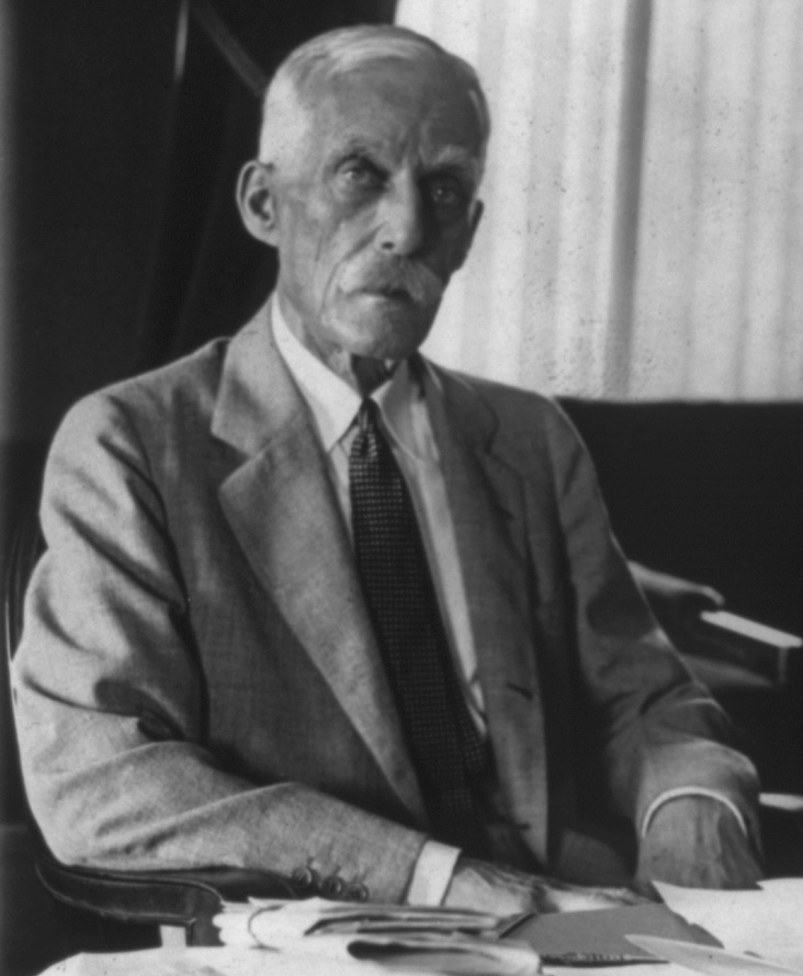 Andrew W. Mellon, Secretary of the Treasury, sitting at his desk.